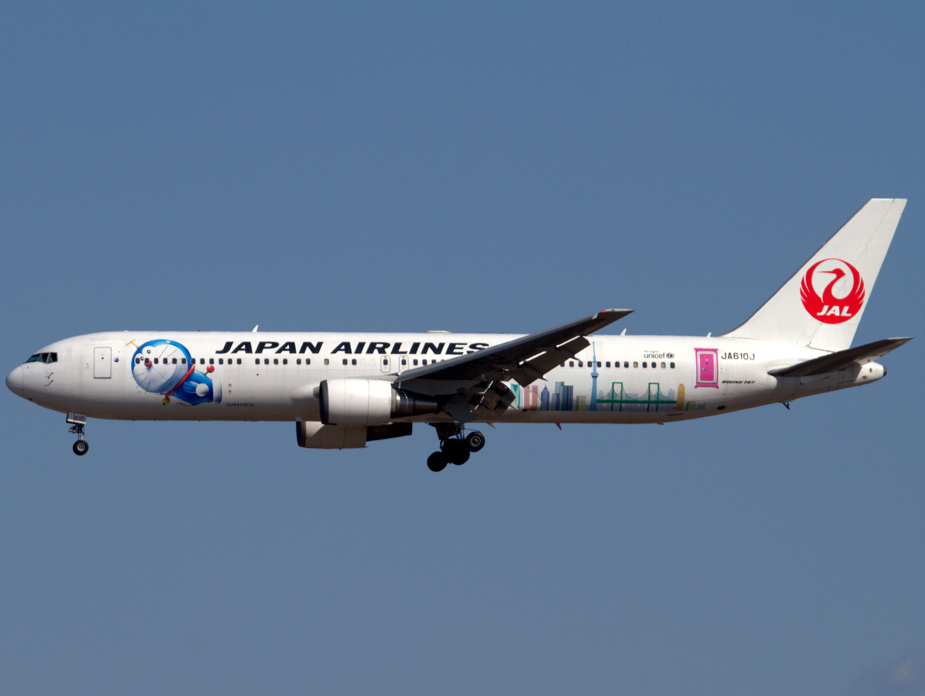 JA610J JAL Doraemon JET